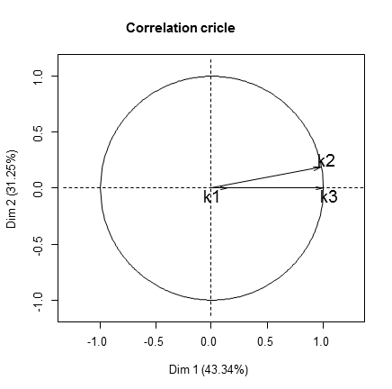 MFA. Test data. Representation of variables.